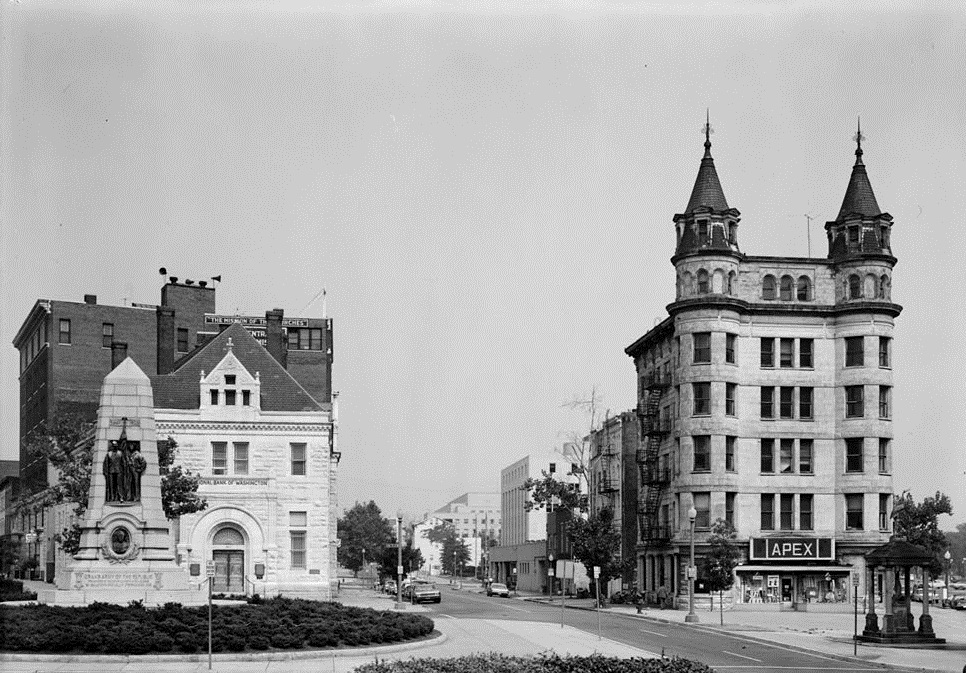 VIEW FROM NORTHWEST SHOWING NATIONAL BANK OF WASHINGTON HABS DC,WASH,186-1